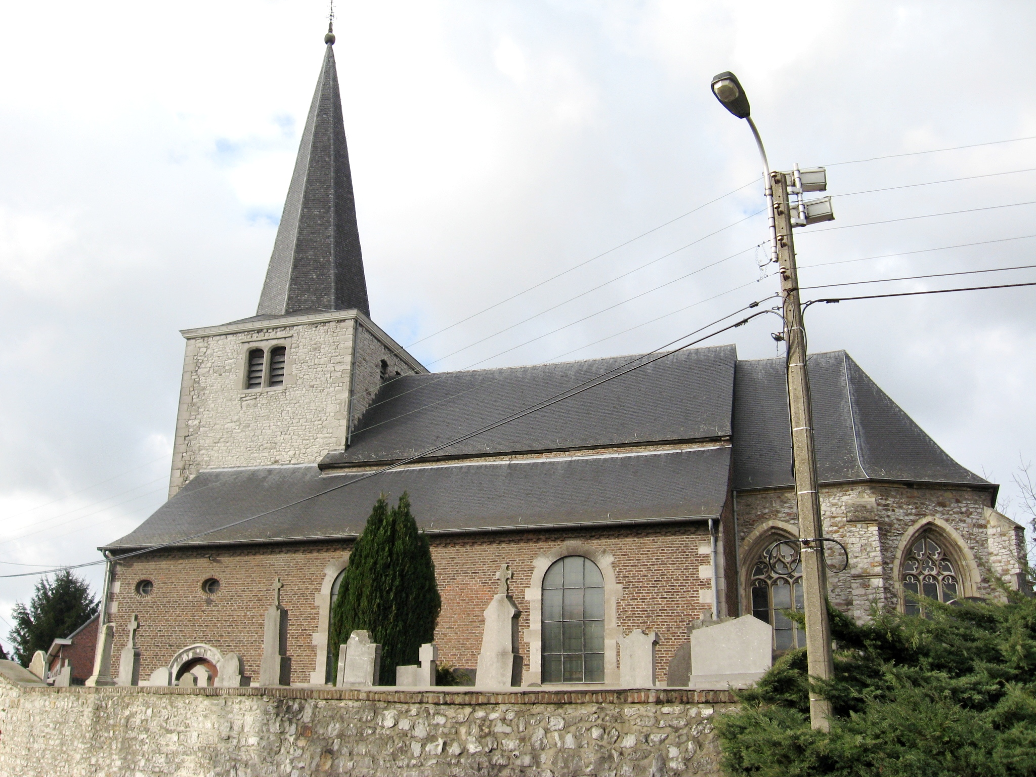 Church of Saint John the Baptiser in Bombaye, Dalhem, Liège, Belgium